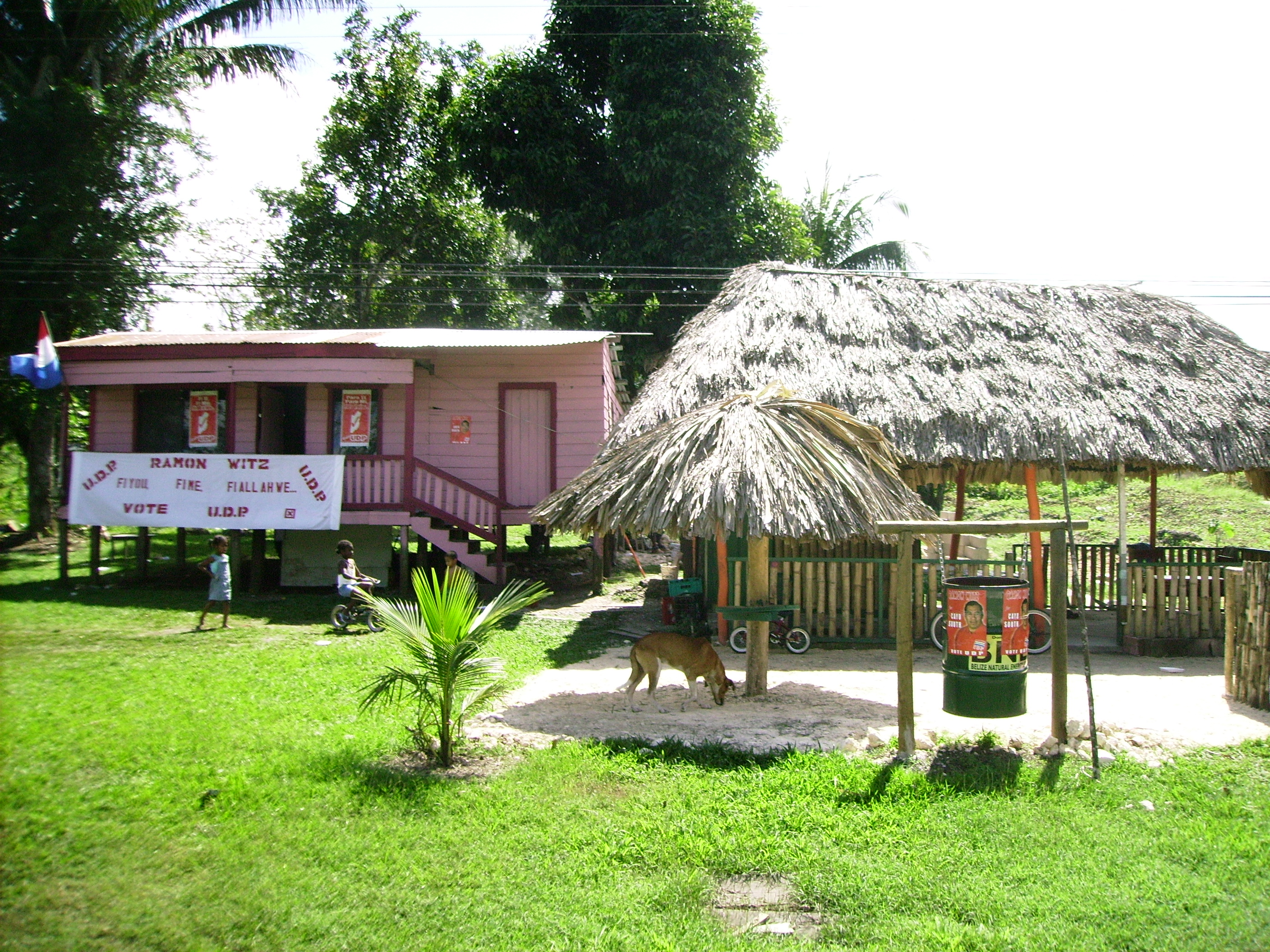 Belize, Palafite with children